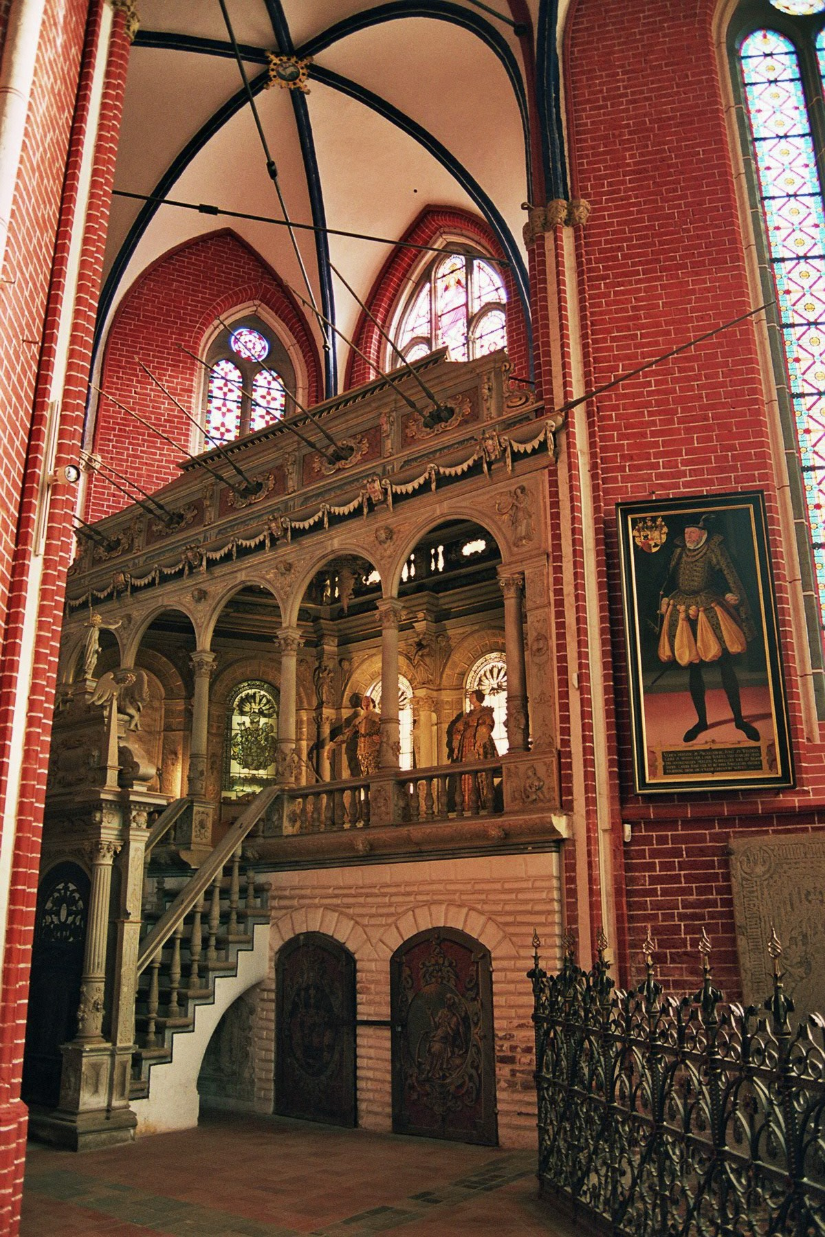 This image shows the tomb and the crypt of Adolf Friedrich I., duke of Mecklenburg-Schwerin, and his wife Anna Maria in the Doberan Minster in Bad Doberan in Mecklenburg-Vorpommern, Germany.